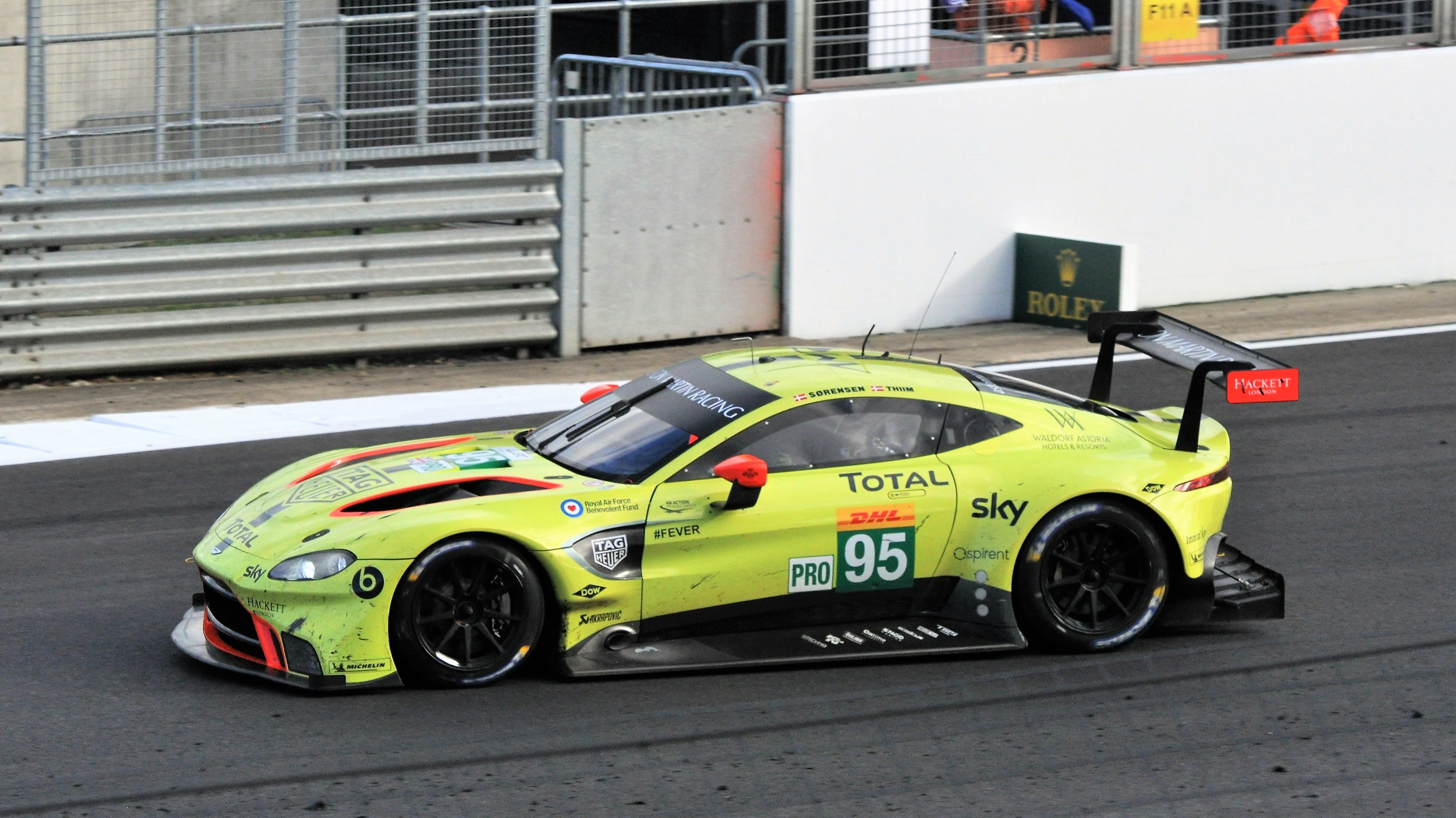 Danish driver Marco Sørensen in the number 95 Aston Martin entry, turning in to Abbey corner during the latter part of the 2018 6 Hours of Silverstone race. Sørensen and his co-driver, compatriot Nicki Thiim, suffered mechanical troubles and finished only 17th in the LMGTE Pro class.